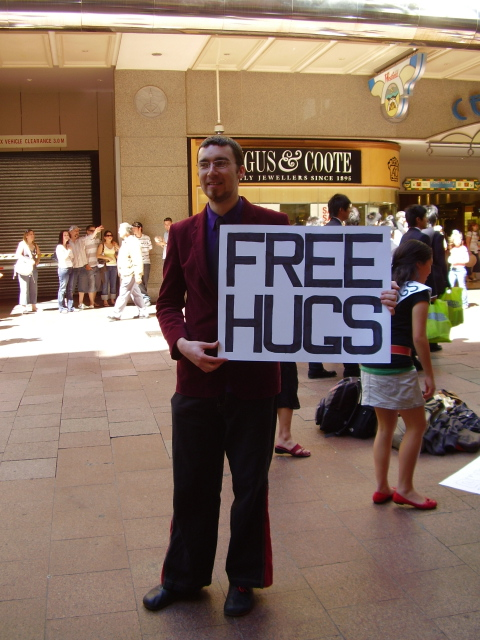 Juan Mann who started the Free Hugs Campaign, seen at Pitt Street Mall, Sydney, Australie For identifying the man, as he appeared on Oprah, 2006